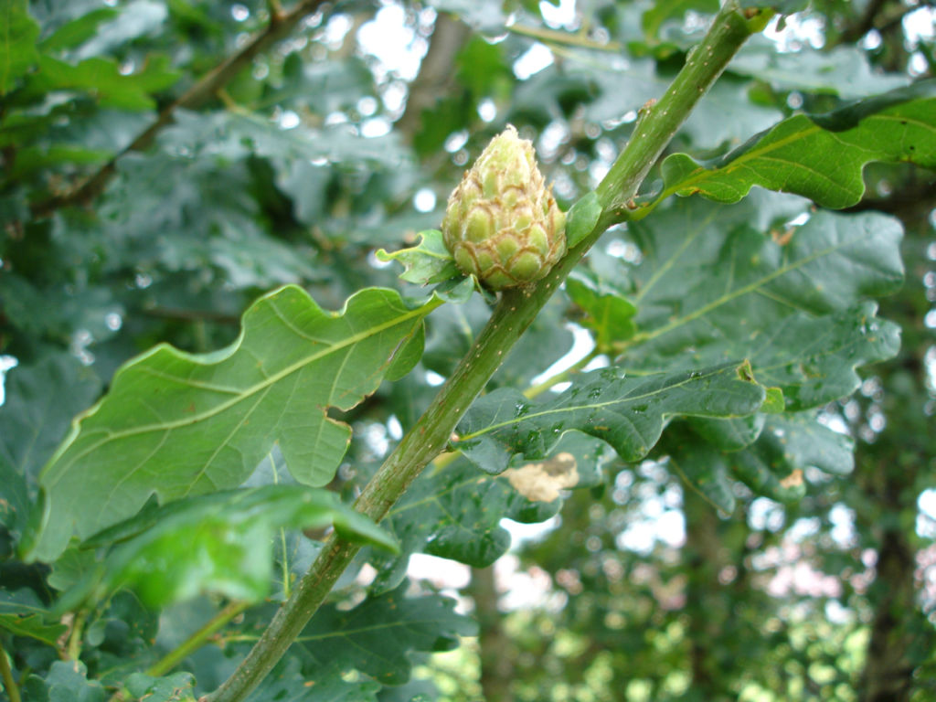 Gall of a gall wasp on Quercus robur